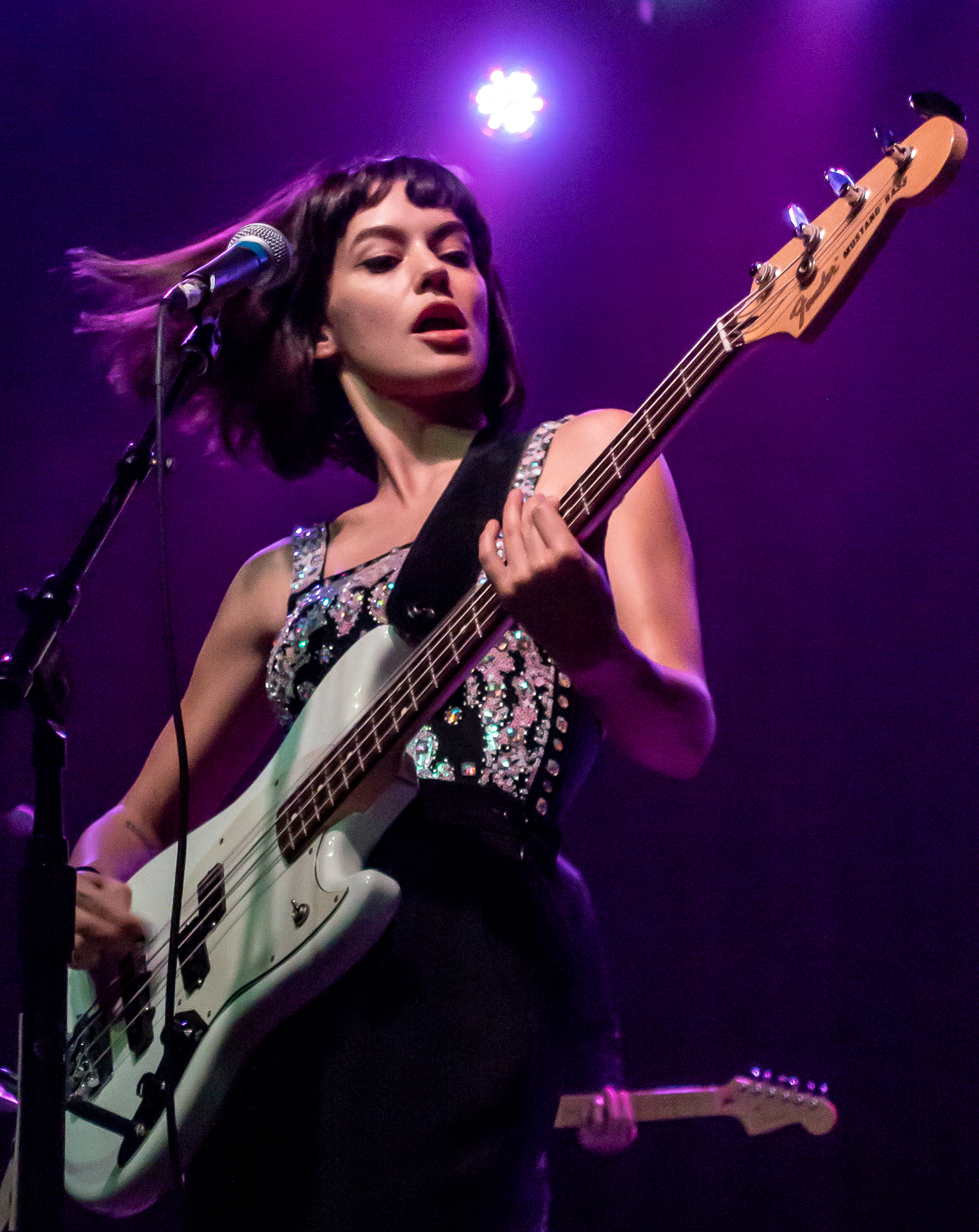 Meg Myers performing live at The Observatory in Santa Ana, Orange County, California, on Saturday, September 15, 2018. This was the first show on Meg's "Take Me To The Disco" tour.